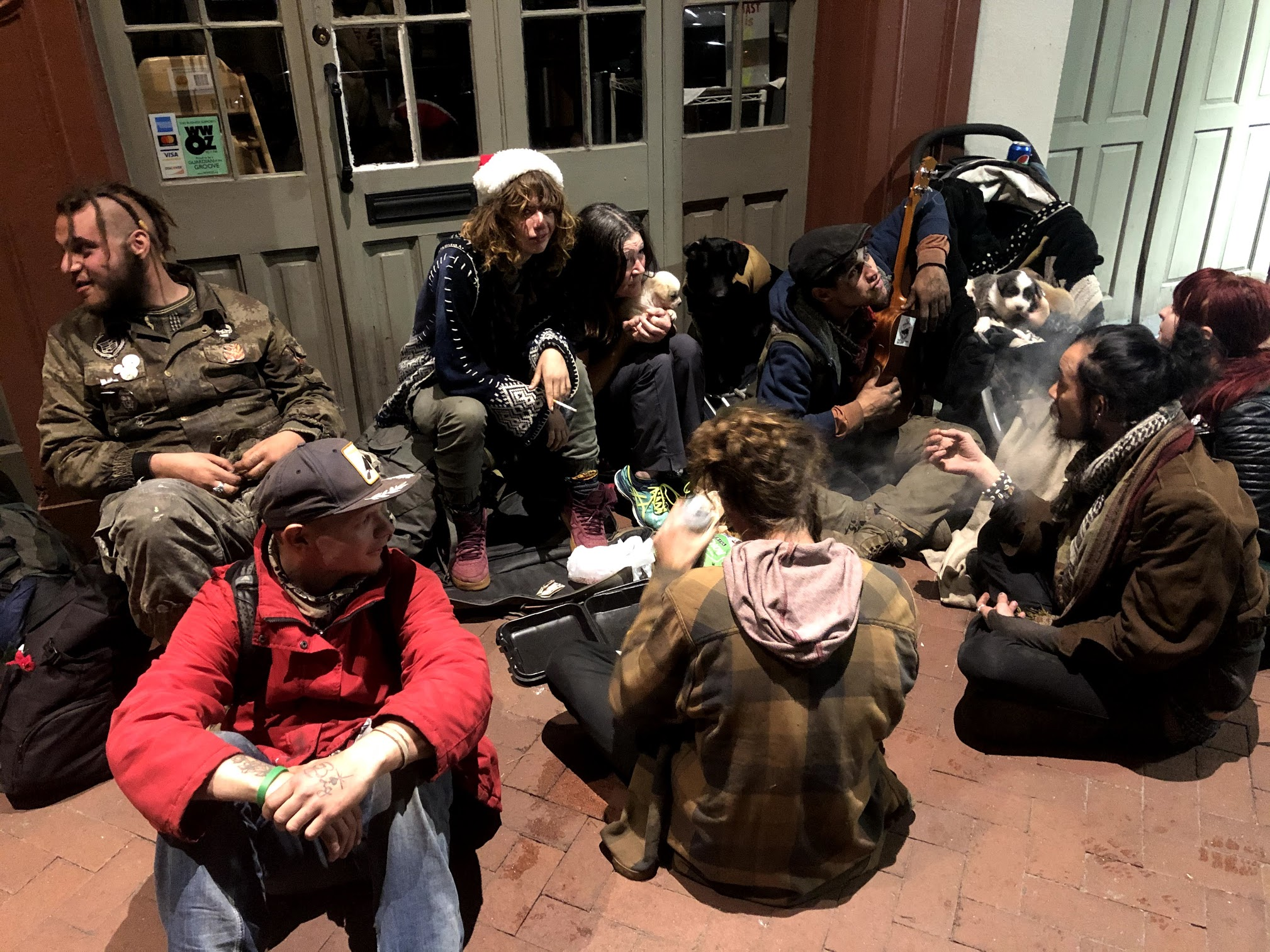 A group of gutter punks in New Orleans, Louisiana, in December 2019 William Rees Farrington in red